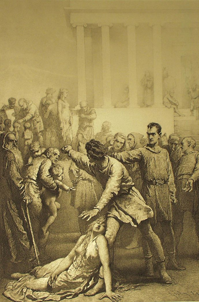 Mihály Zichy - Illustration to Imre Madách's The Tragedy of Man - In Phalanstery (Scene 12)